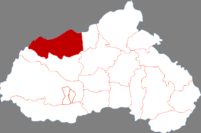 Location of Lincheng county in Xingtai City, China